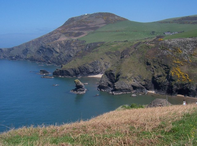 View over Llangranog Taken on a walk from Penbryn to Llangranog at Easter time.